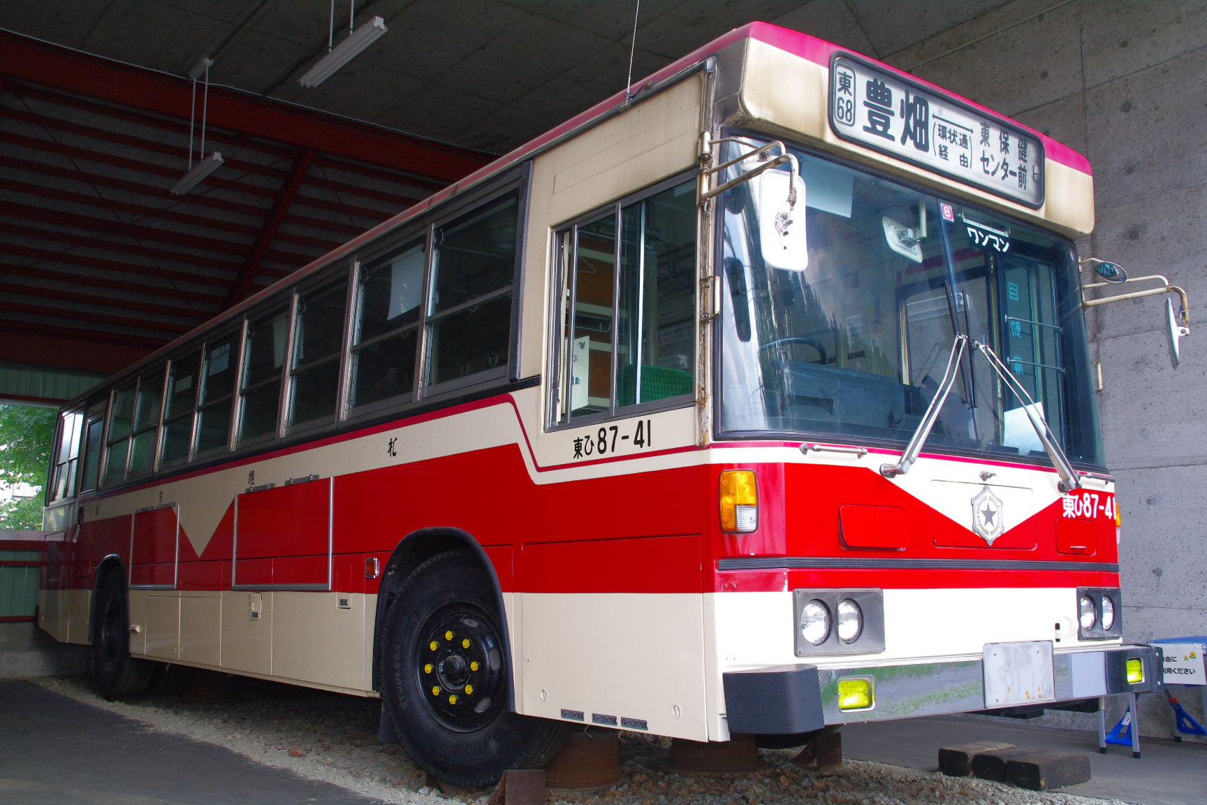 Sapporo municipal bus old color type bus.